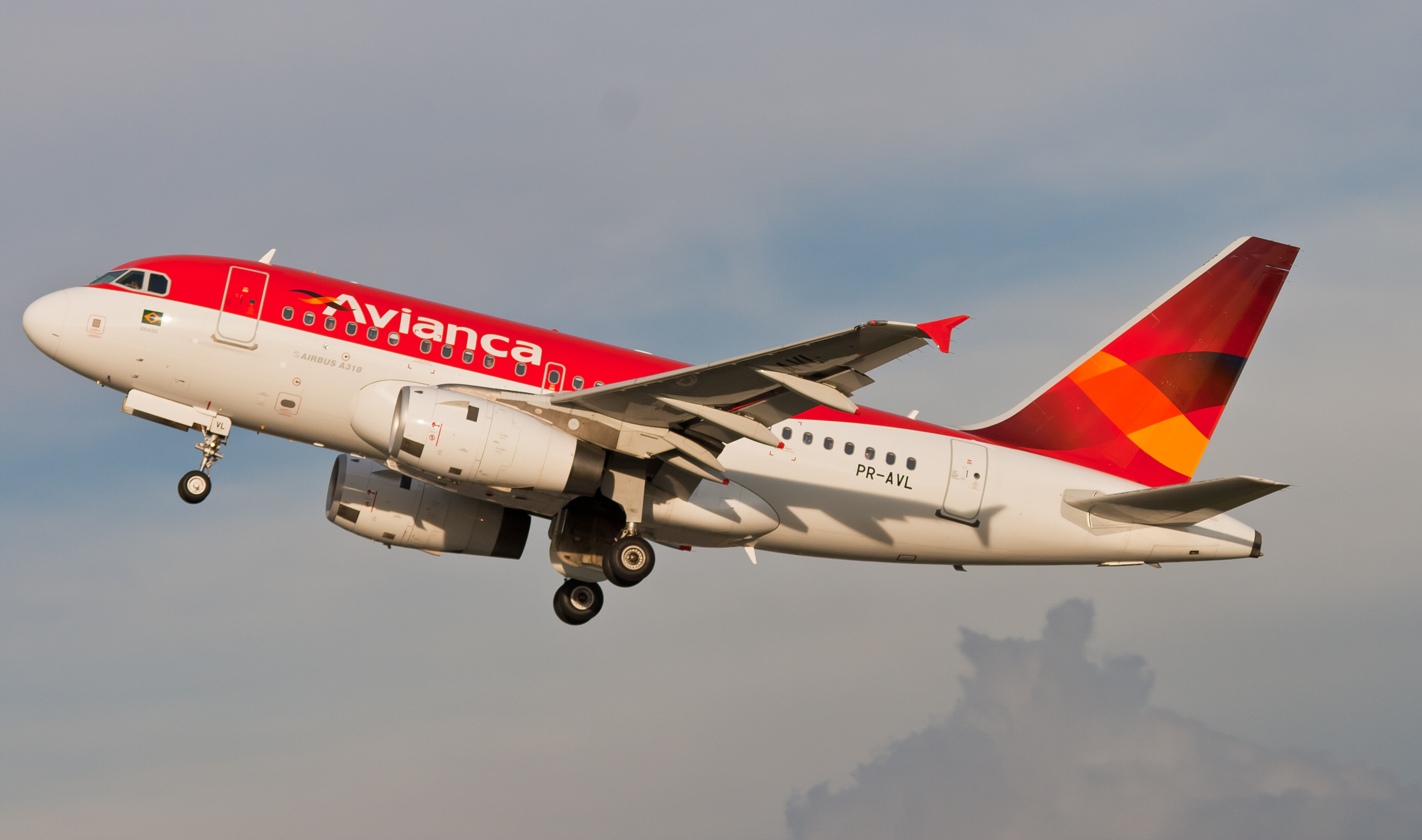 It was almost sunset and the light was beautiful for shooting. I found this picture interesting because the wing shadow over the fuselage. Note landing gear doors opened for gear retraction.